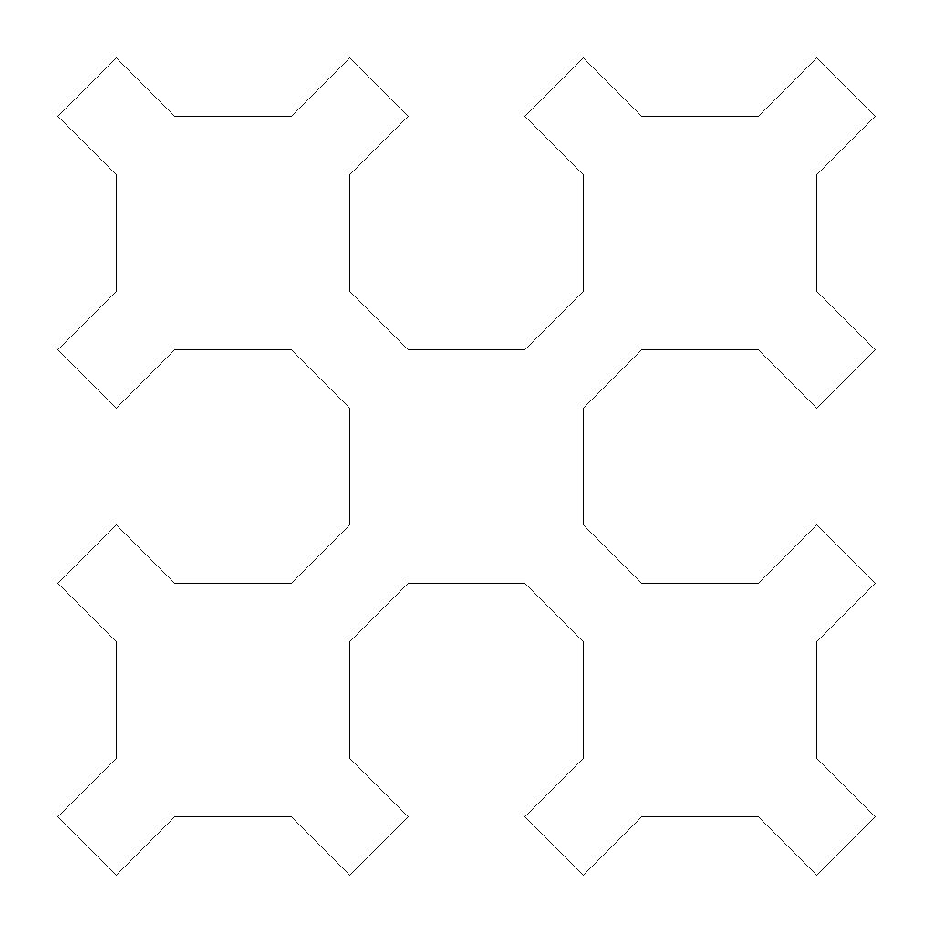 Sierpinski Curve L2